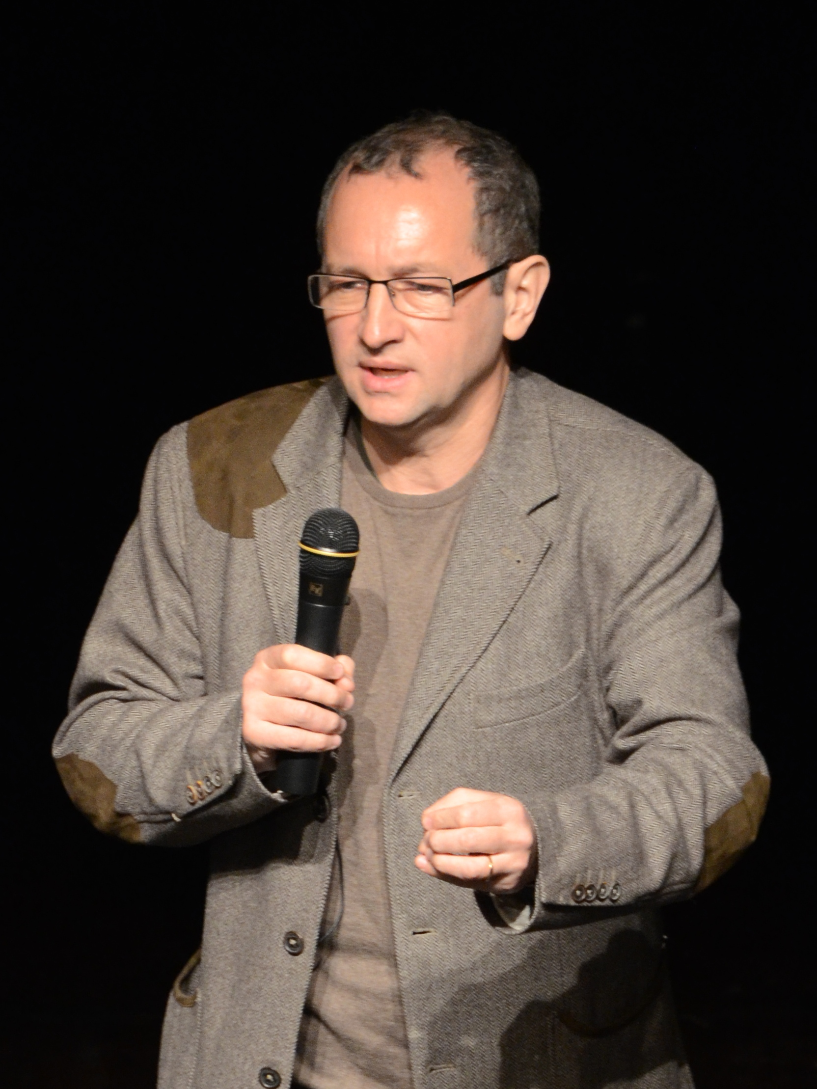 Dan Puric, la un eveniment dedicat memoriei foștilor deținuți politici ([1]), înaintea premierei piesei de teatru "Testament" ([2])